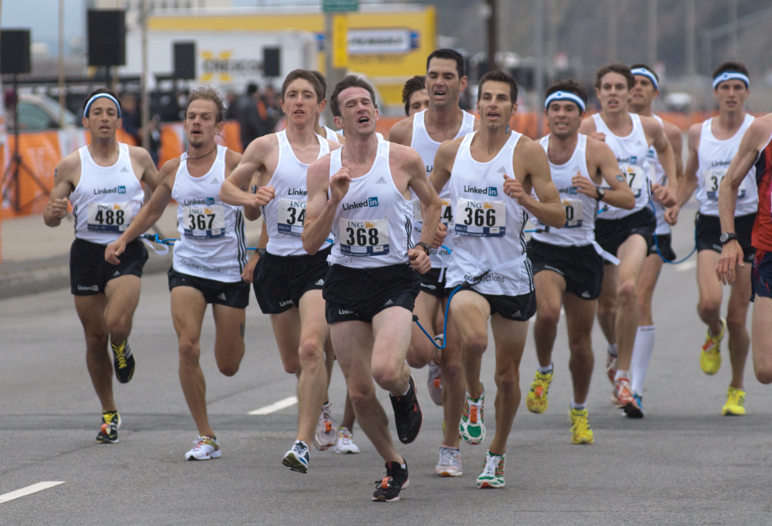 The first place elite centipede team, sponsored by LinkedIn, crosses the finish line during the 2010 Bay to Breakers race Sunday, May 16 in San Francisco.